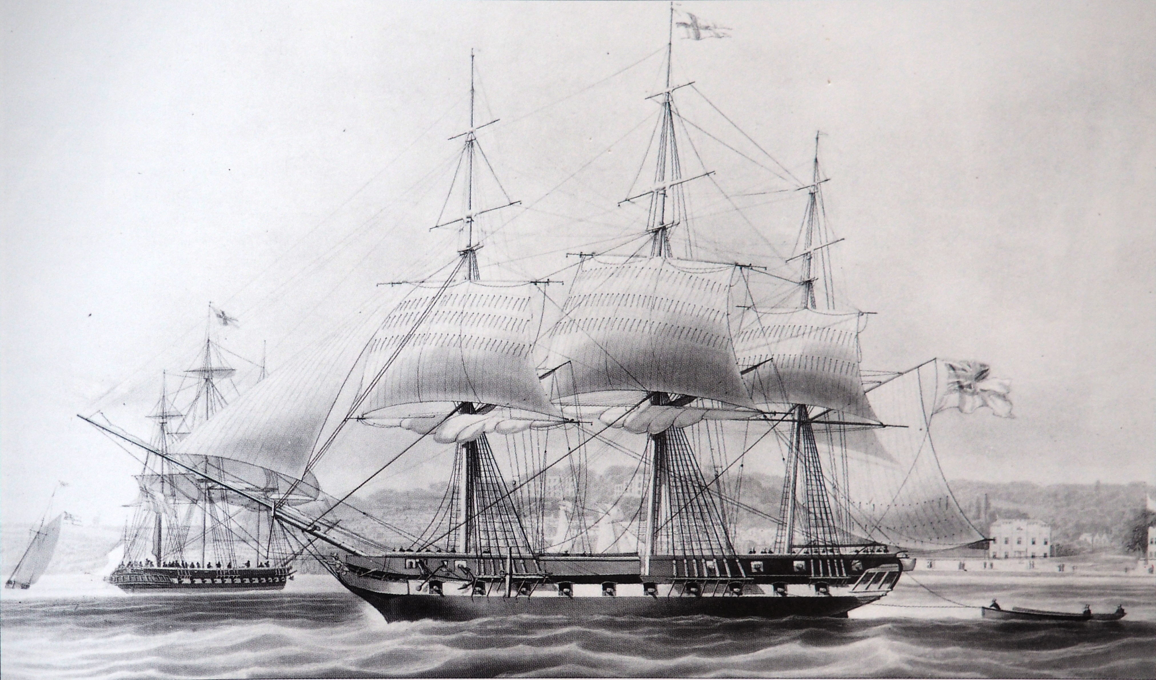 Falcon (1824), in the Royal Yacht Squadron from 1824 to 1836